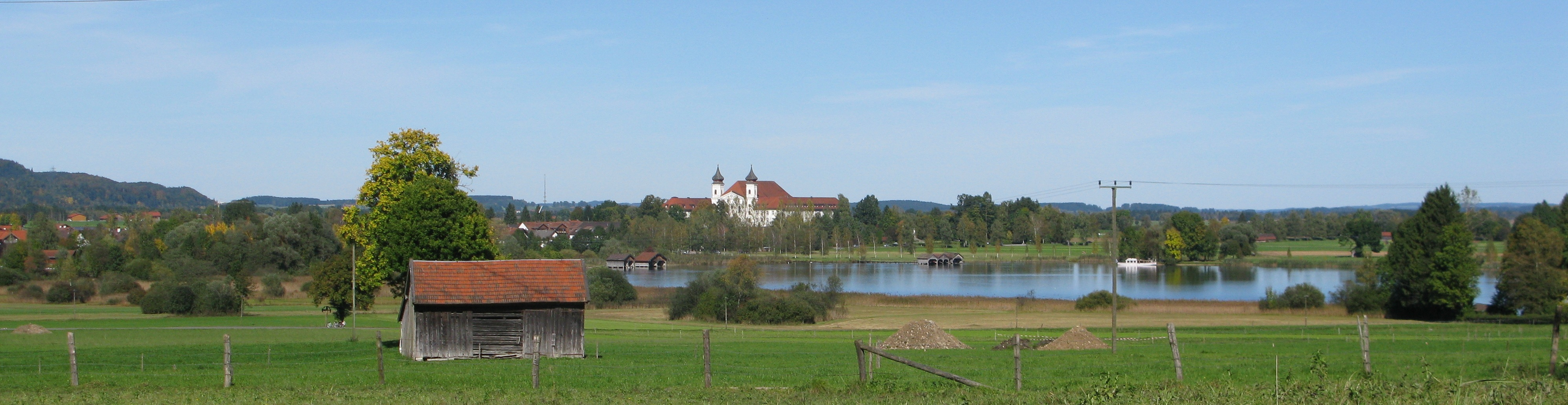 The Schlehdorf Abbey (Kloster Schlehdorf) at the Kochelsee in Schlehdorf, Upper Bavaria, Germany.